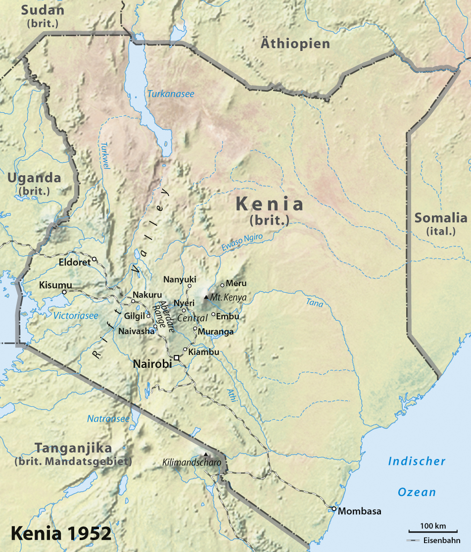 Map of Kenya 1952 (Mau Mau Uprising)